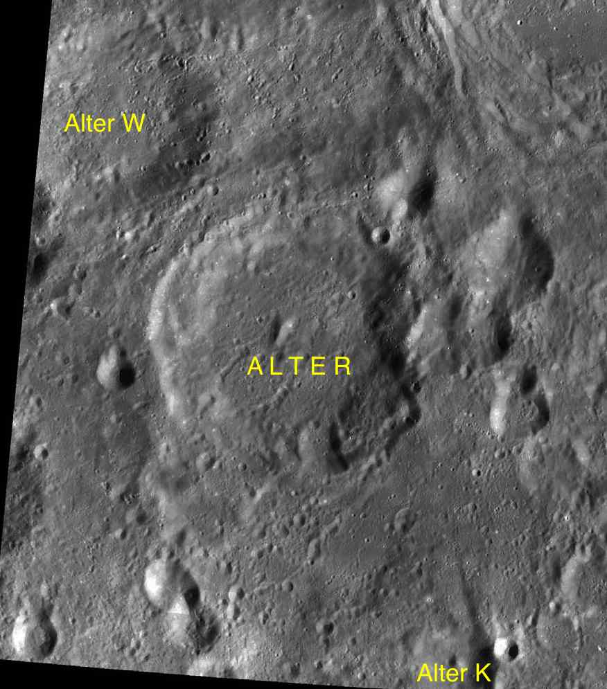 Part of the chart LAC-54 used for the presentation